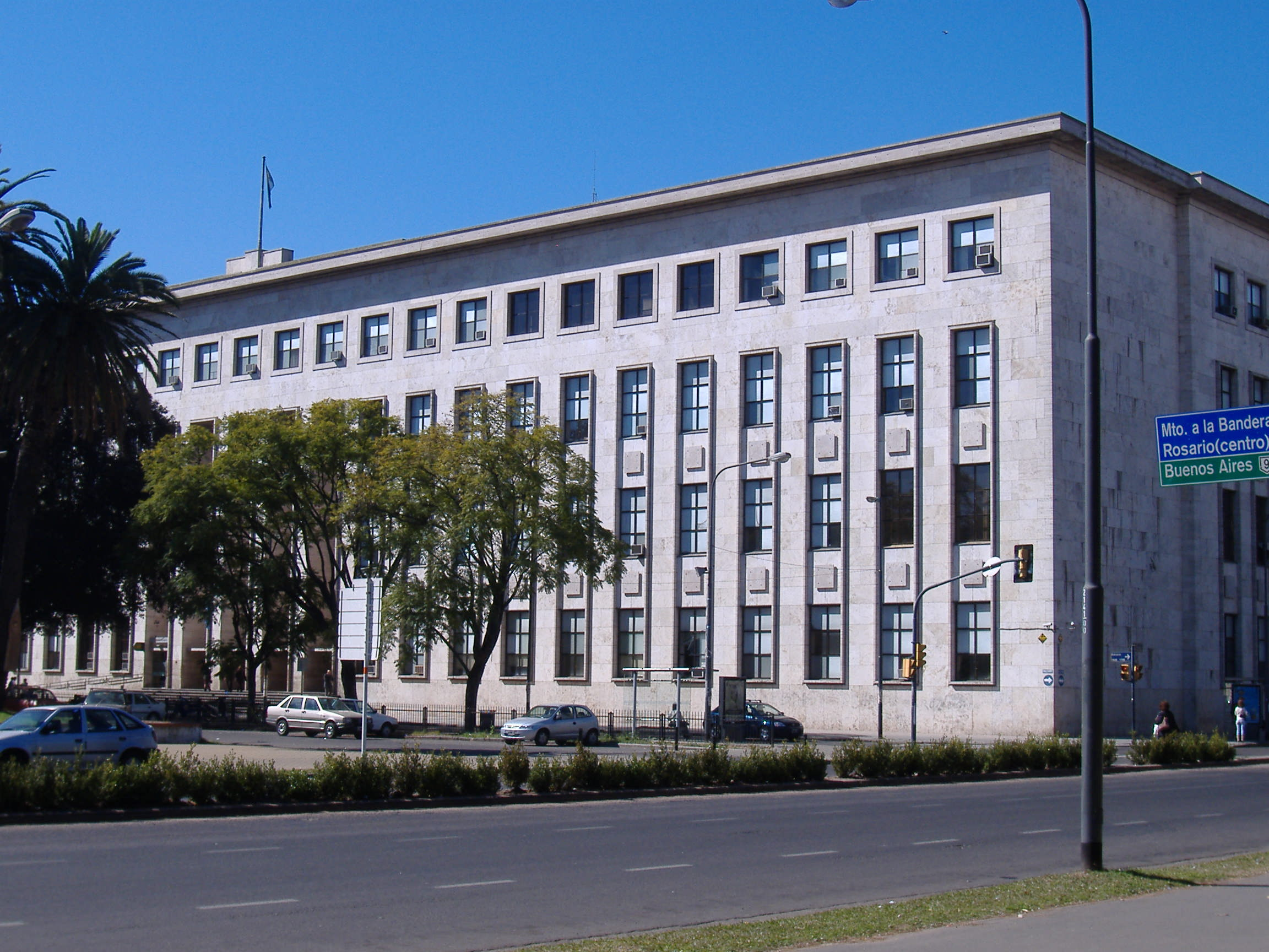 Tribunals of Justice of Rosario, Argentina.